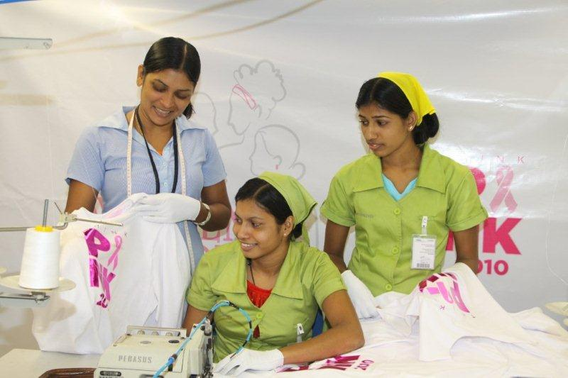 Three female Sri Lanka garment workers.